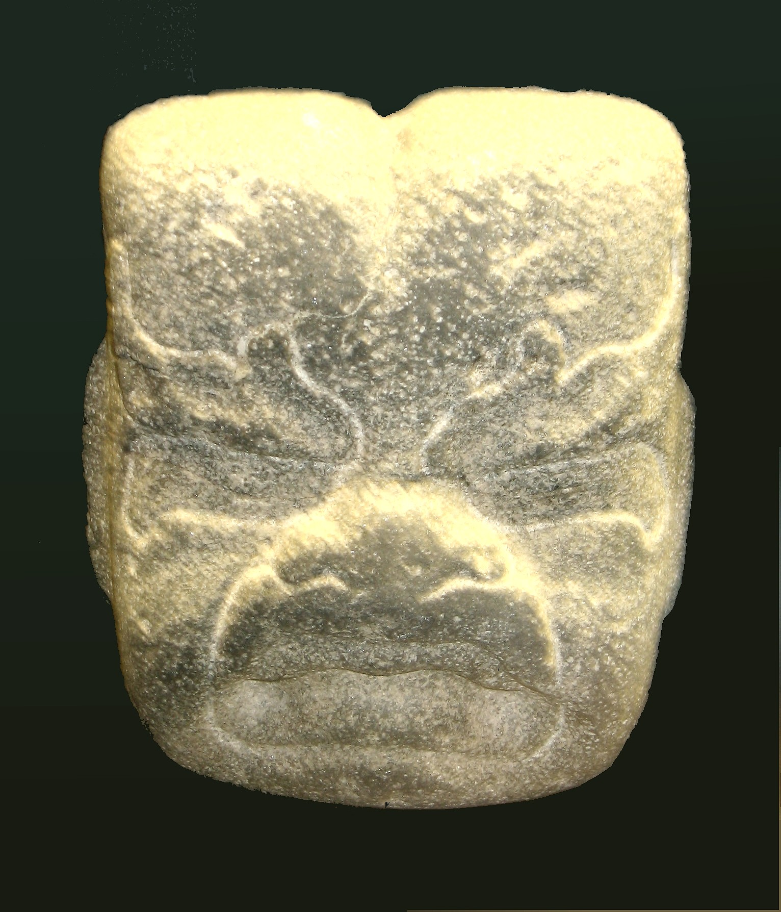 Olmec were-jaguar face, stone. Height: 6.5 in (17 cm). Photo by Madman.